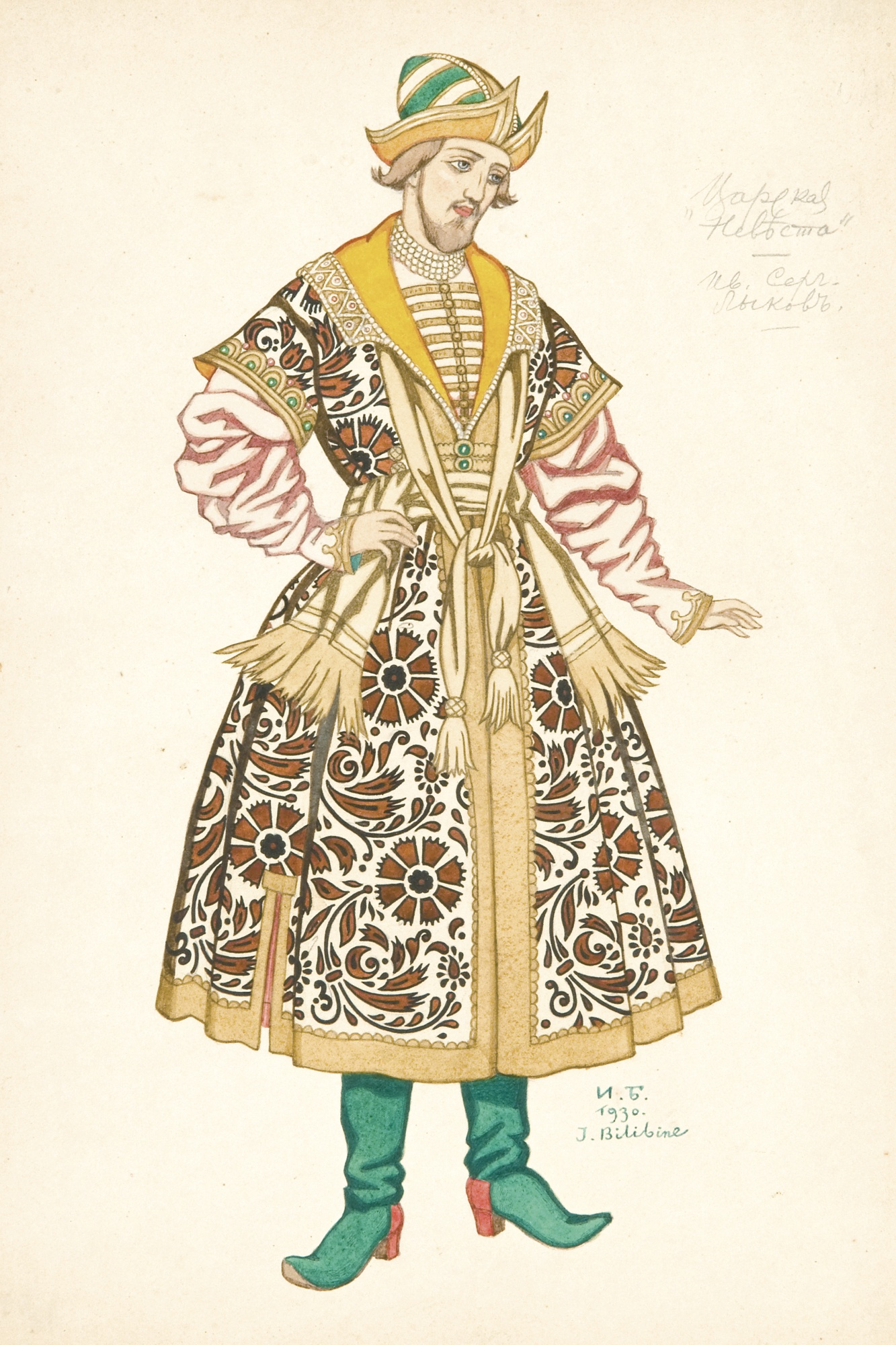 Ivan Yakovlevich Bilibin 1876-1942 COSTUME DESIGN FOR BOYAR IVAN SERGEEVICH LYKOV IN THE TSAR'S BRIDE signed in Latin, initialled in Cyrillic and dated 1930 l.r.; further inscribed in Cyrillic t.r. watercolour over pencil on paper laid on card 33.2 by 22.5cm, 13 by 9 3/4 in.